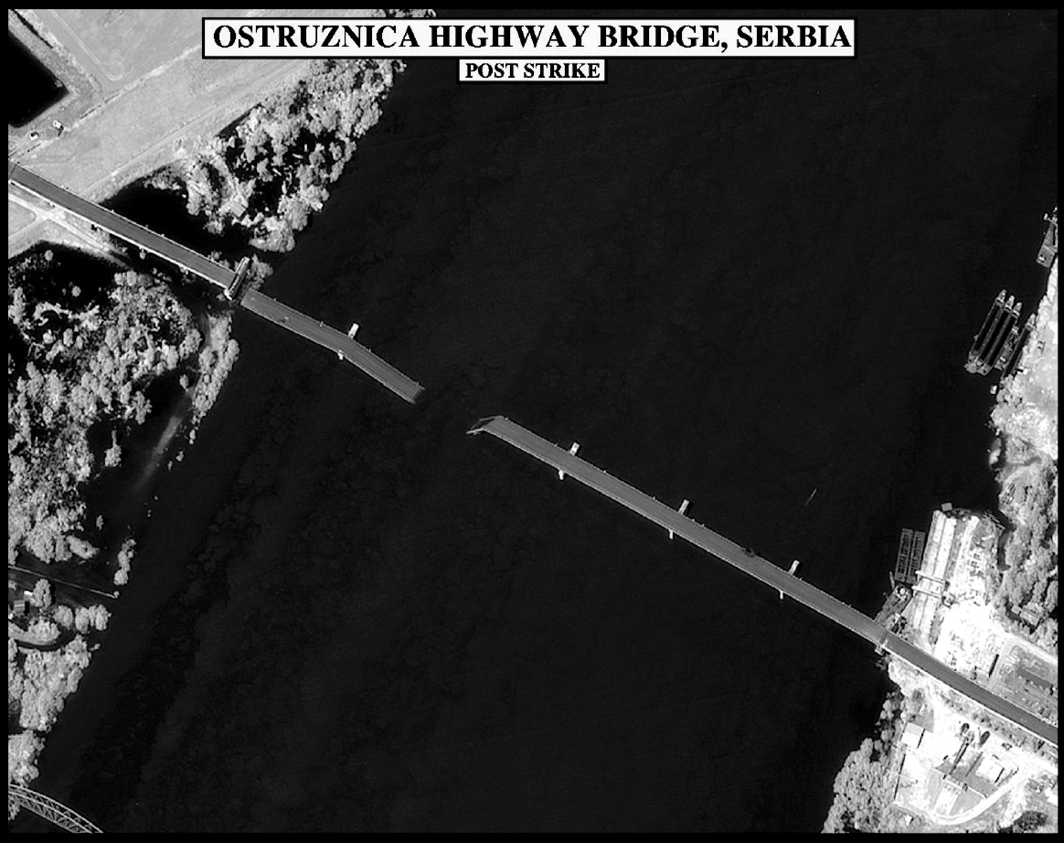 Ostruznica highway bridge hit during Operation Allied Force.